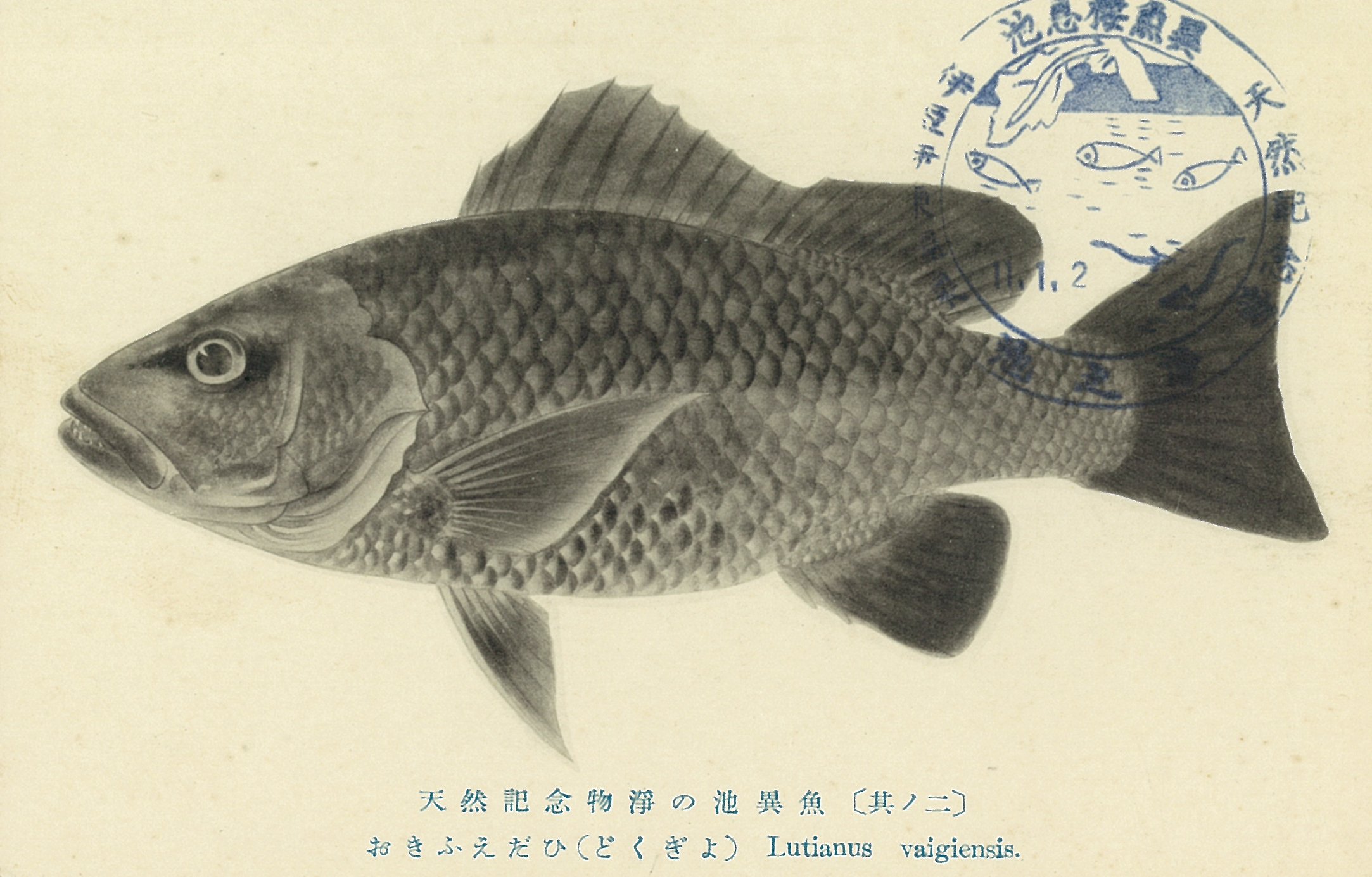 Jono-ike pond postcard. Black tail snapper.1936